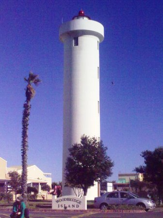 Location of the camp site of the survivors of the Nieuwe Haerlem This media shows a South African Protected Site with SAHRA file reference 9/2/018/0257.